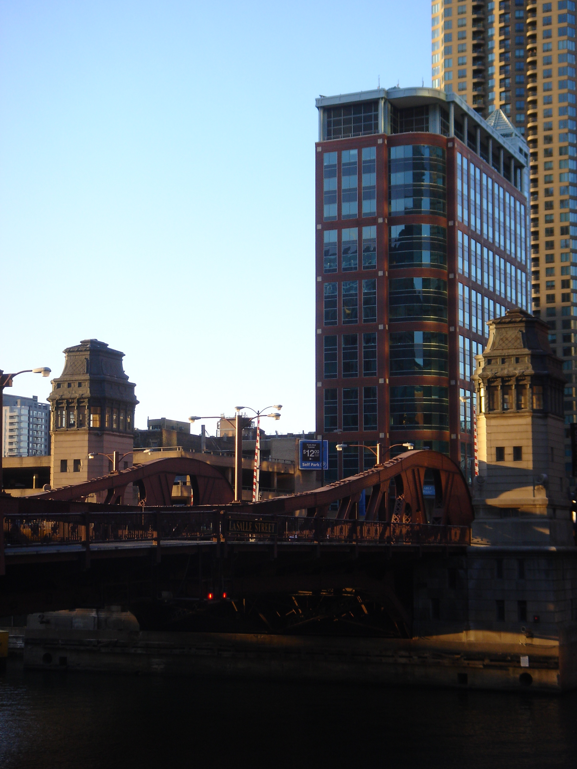 350 North LaSalle in Chicago, home of Illinois Institute of Technology's Institute of Design. By Richard Duncan.